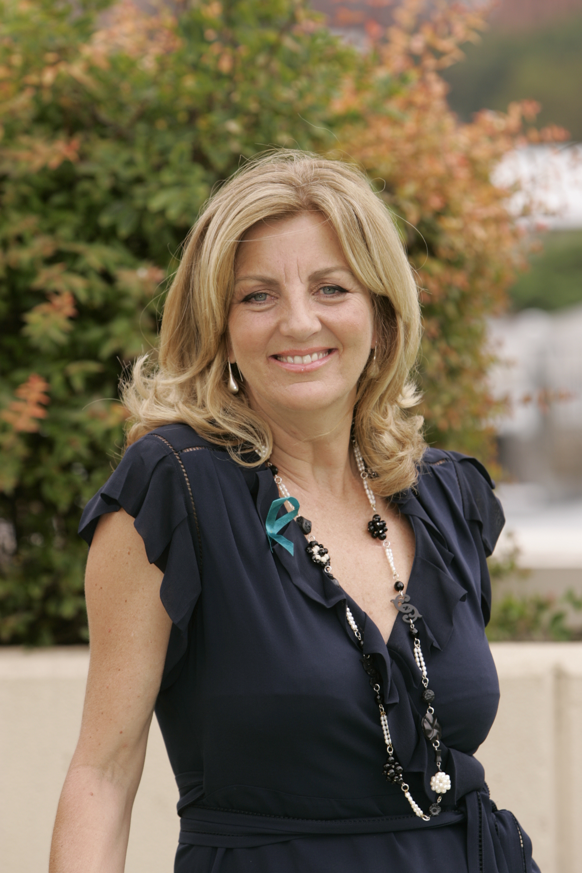 Jean Kittson publicity still for Ovarian Cancer Awareness Month 2010. Photo by Honeydew Photography Other information Photo to be credited to Honeydew Photography